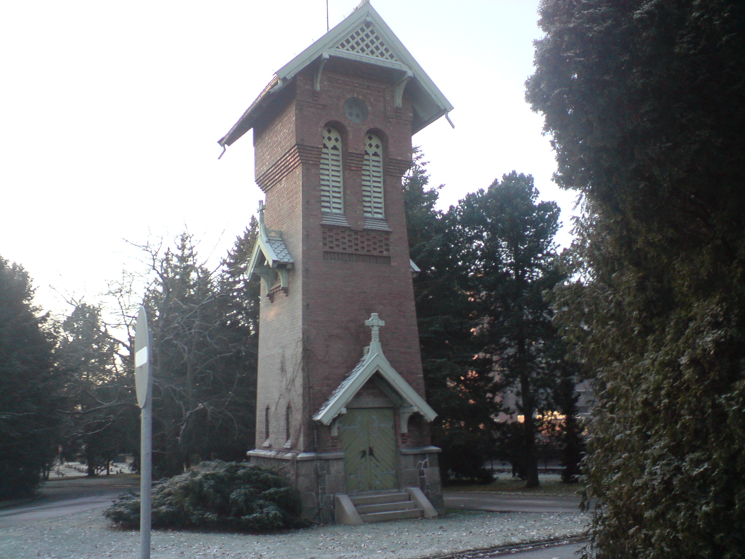 The old bellfry at Østre gravlund in Oslo